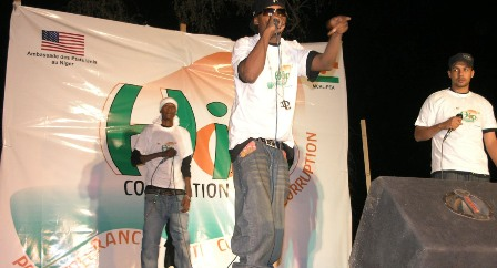 "2009 Hip Hop Caravan: Hip Hop group Black Daps performs at concert in Niamey on themes of peace, tolerance, and anti-corruption, which are crucial to ensure stability, promote development and secure foreign investment for Niger." U.S. Embassy-sponsored 2009 Hip Hop Caravan, from the Website of the United States Embassy, Niamey.